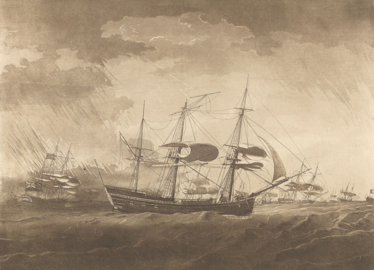 Plate I. The Lady Juliana struck with Lightning in the Gulf of Florida... 16th Septr 1782 Print Plate I. The Lady Juliana struck with Lightning in the Gulf of Florida... 16th Septr 1782